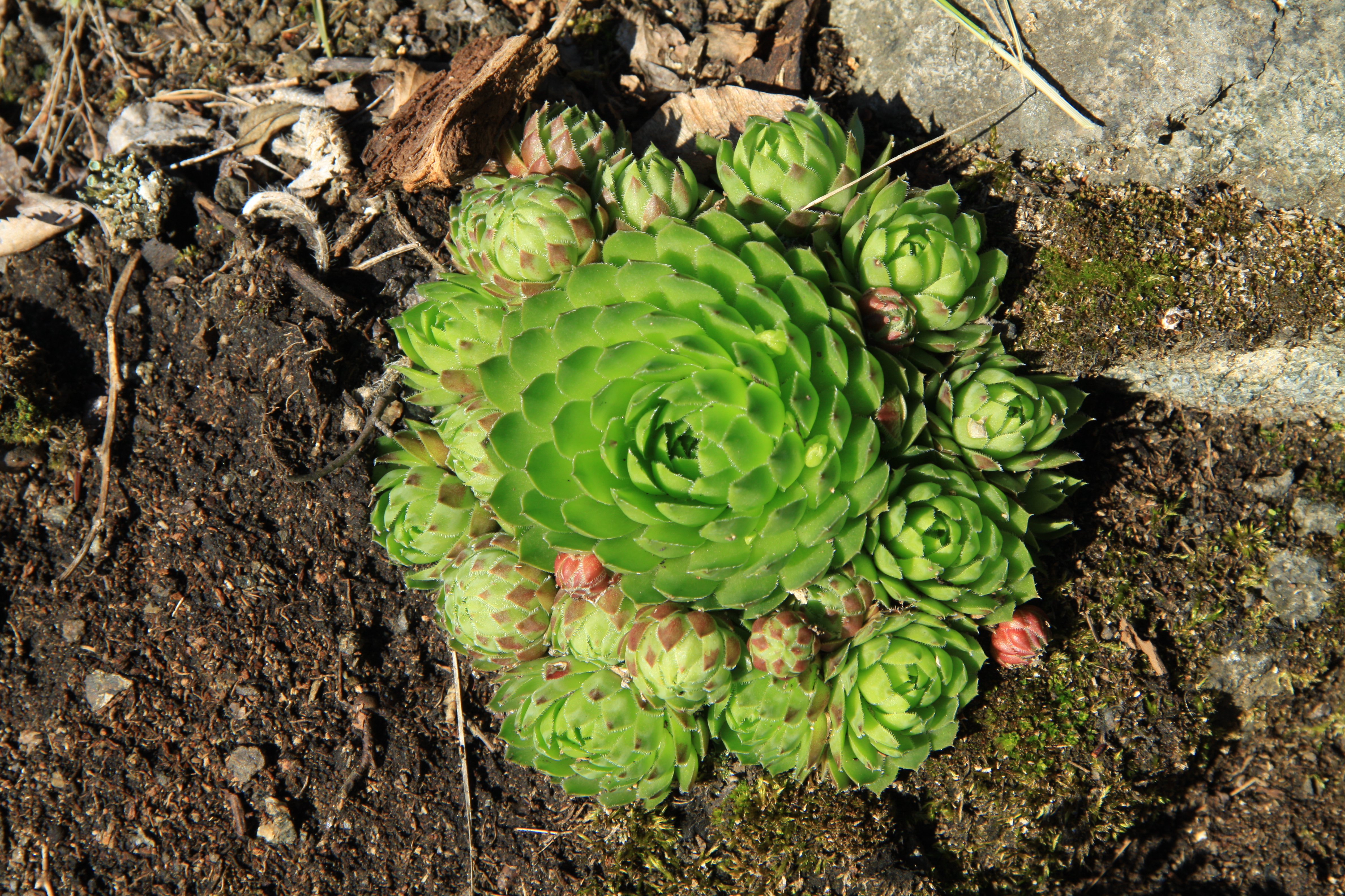 Jovibarba globifera in natural monument Kalvárie v Motole (Calvary in Motol) in Prague, Czech Republic